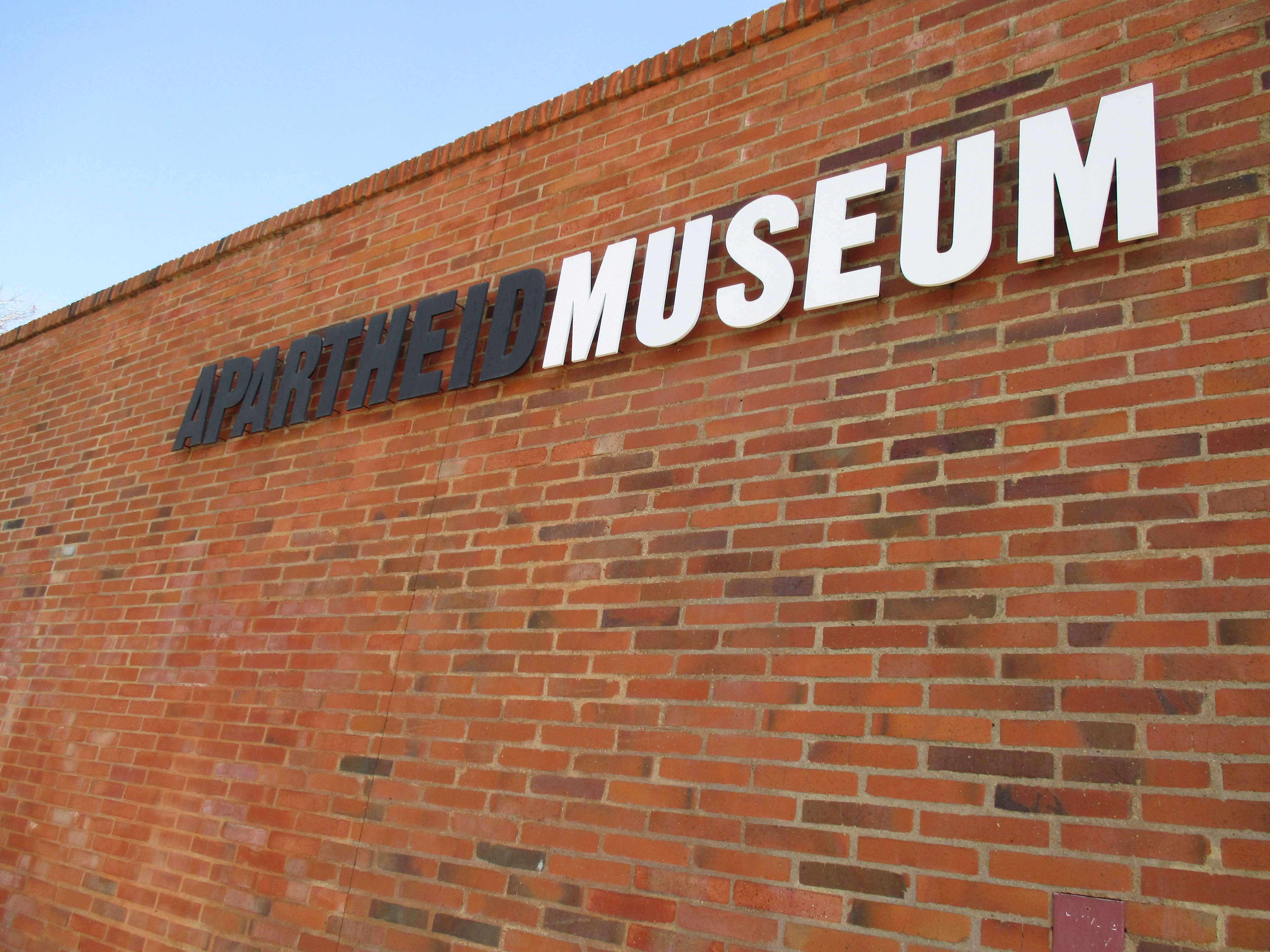 Entrance to the South African Apartheid Museum.